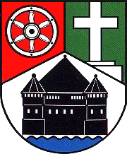 Coat of Arms of Deuna